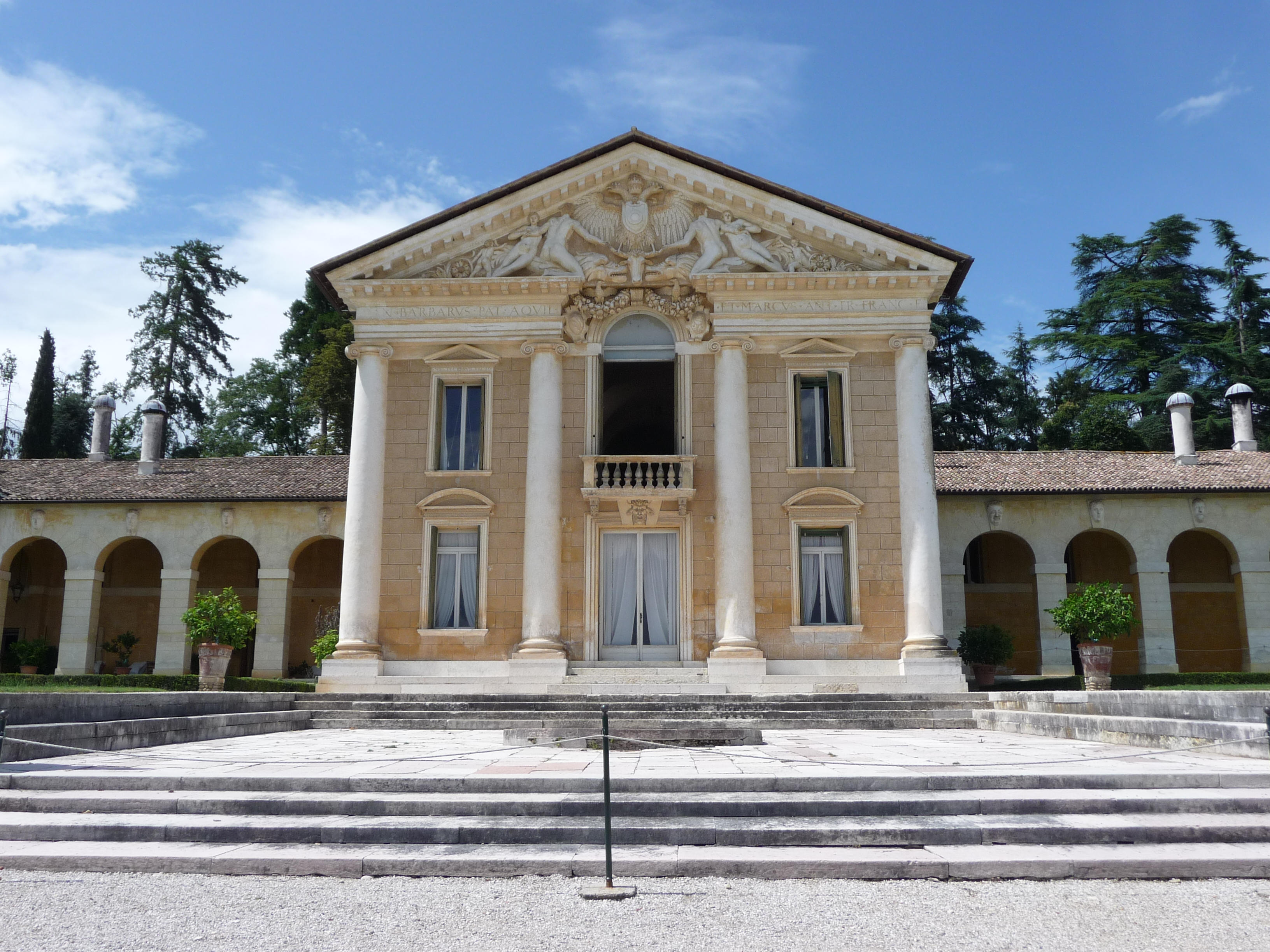 Villa Barbaro in Maser, province of Treviso, Italy, built by Andrea Palladio between 1554 and 1560 for the brothers Daniele and Marcantonio Barbaro.